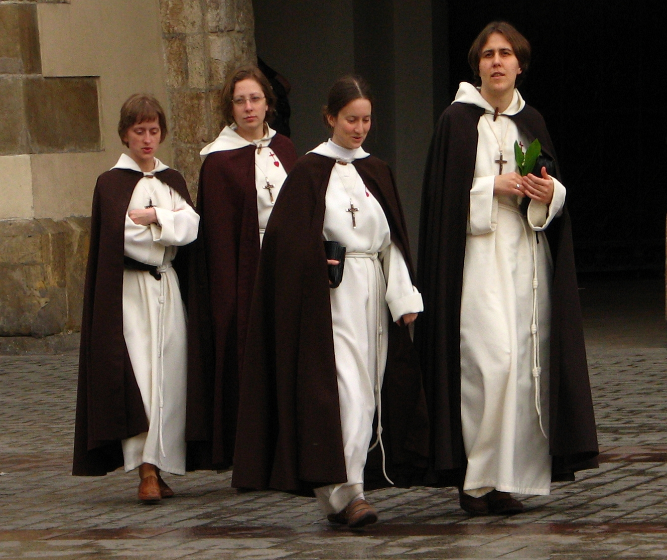 Sisters of Saint Jadwiga the Queen, Handmaids of the Present Christ, so called adwiżanki of Wawel, on the Old Town Market Square in Kraków, near the Kraków Cloth Hall.